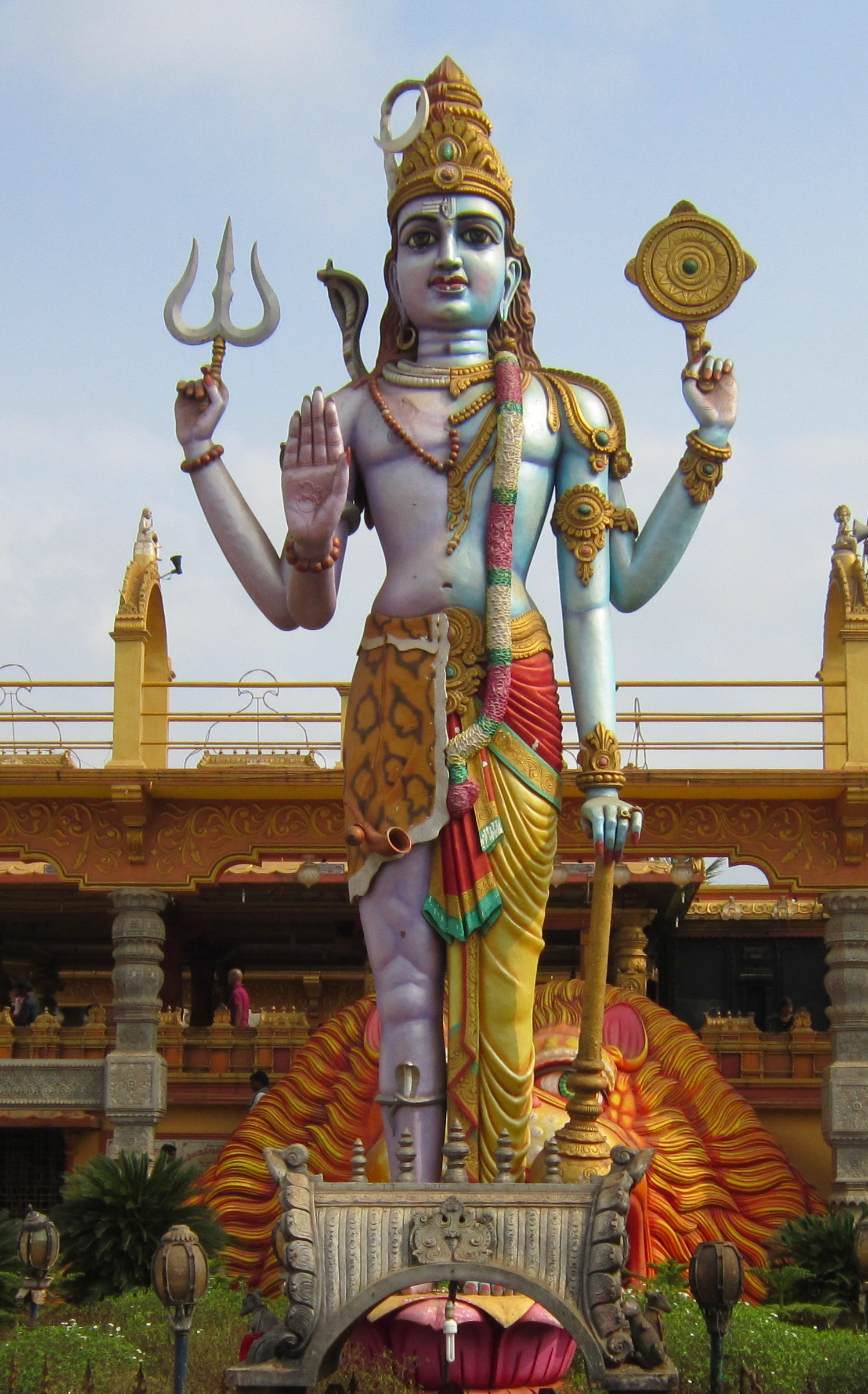 Indian God-siva and vishnu in single form of sivakesava